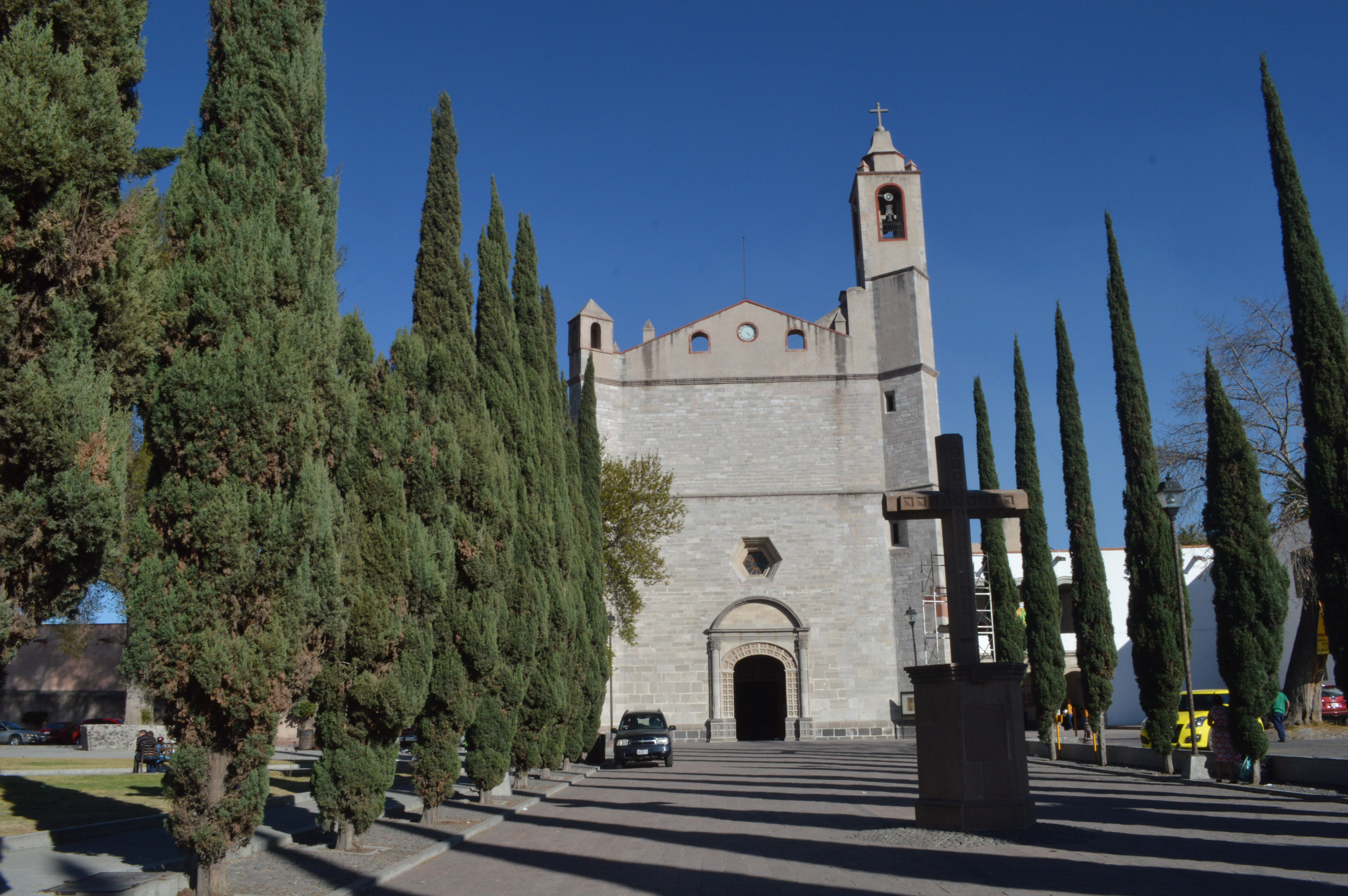 View of the Tula Cathedral in Tula de Allende, Hidalgo